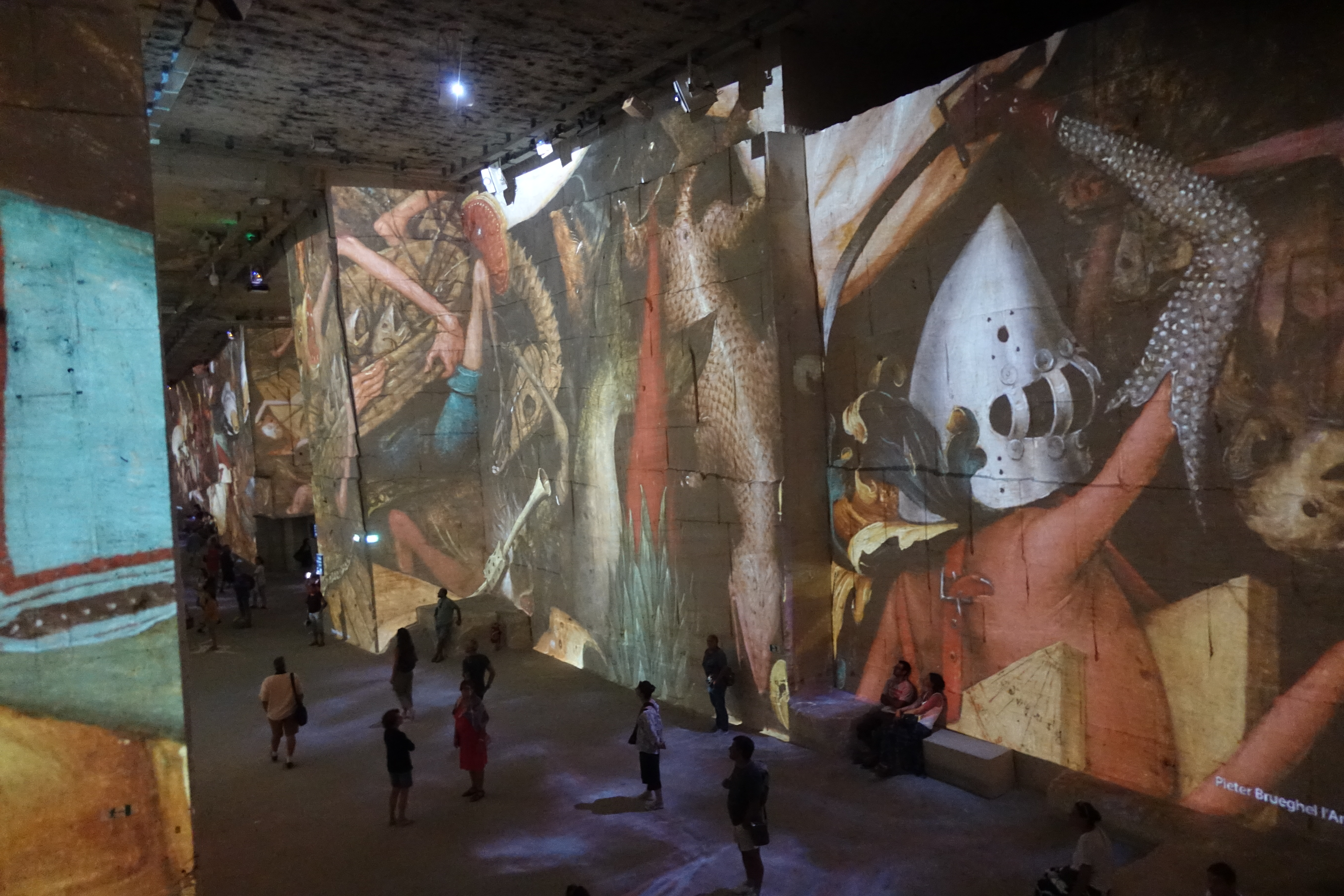 Carrières de Lumières in 2017, France